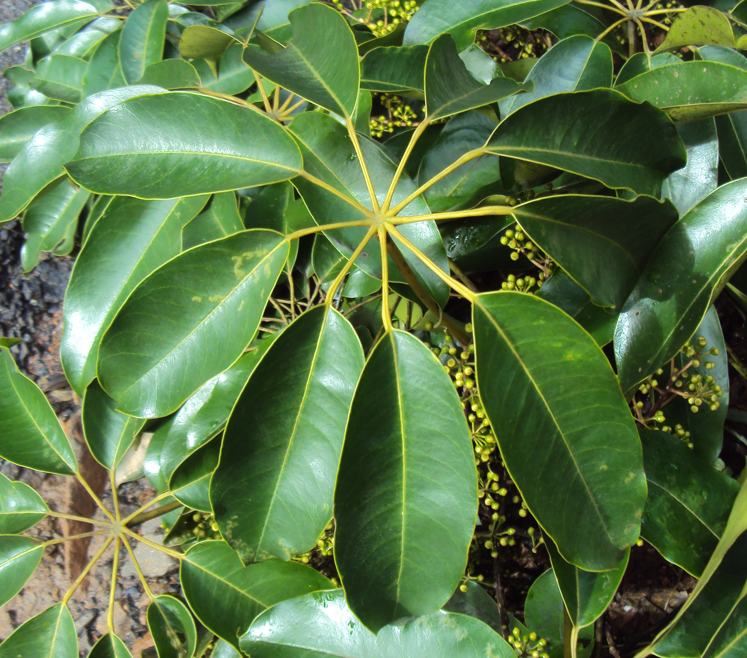 Schefflera wallichiana